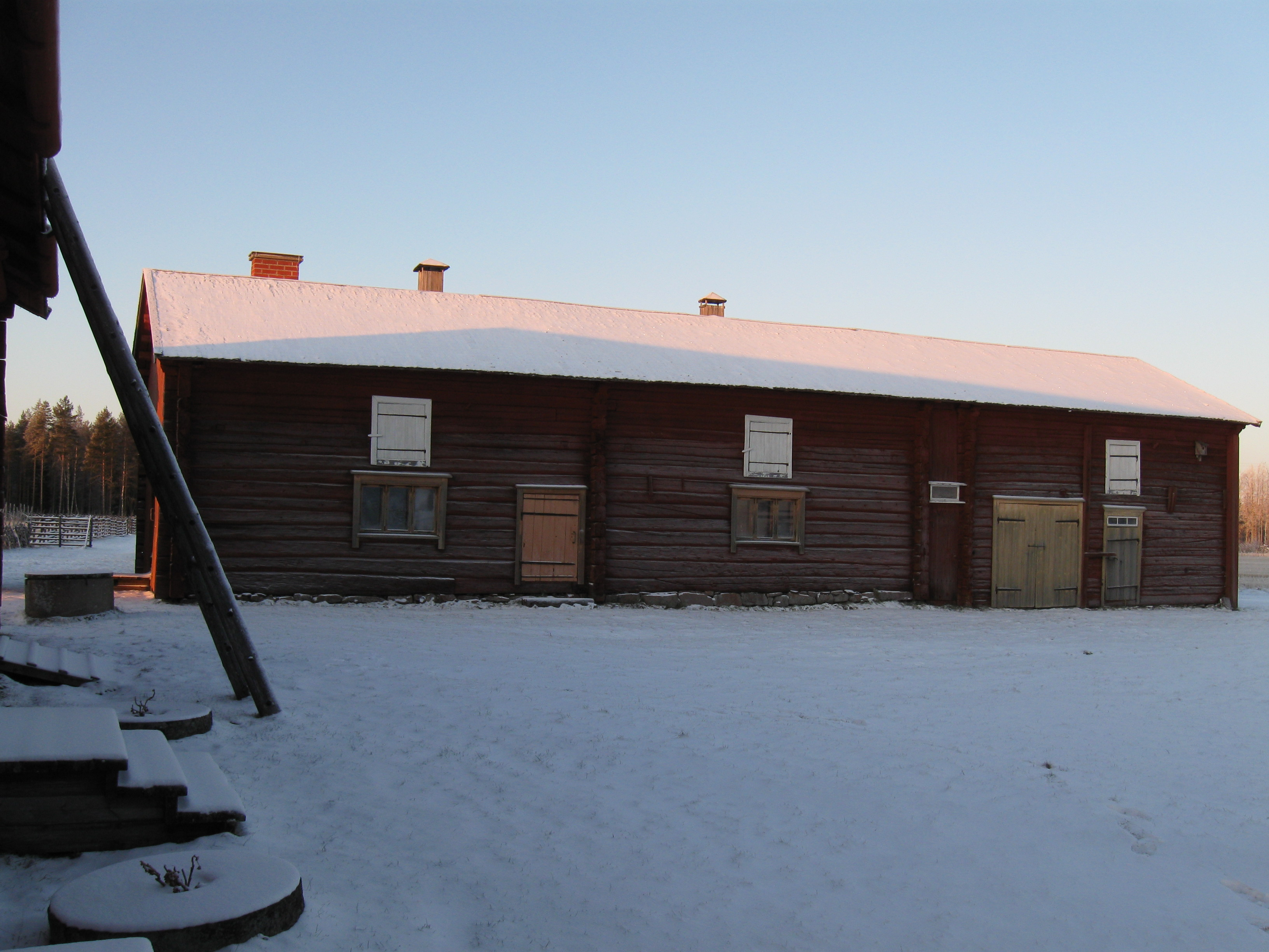 The cowhouse and stable building of the old Lamminaho estate at Oulujoki river in Vaala, Finland.